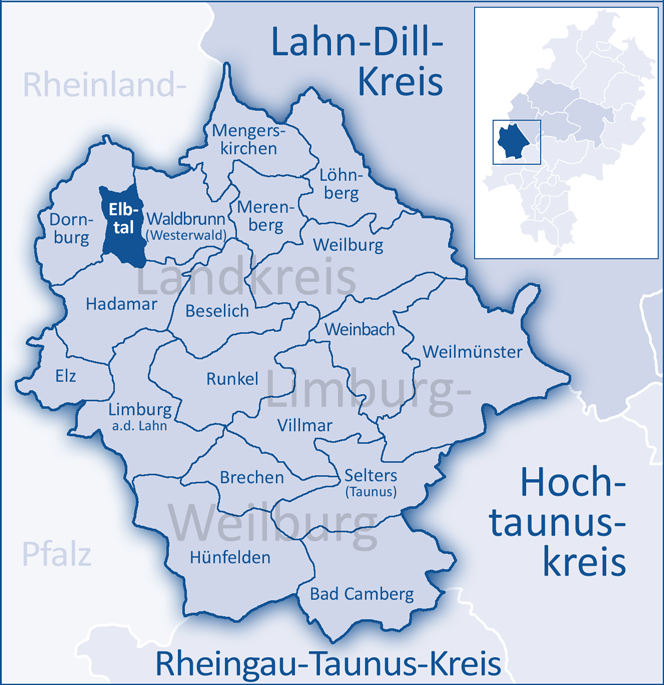 The map shows a district in the area of Limburg-Weilburg